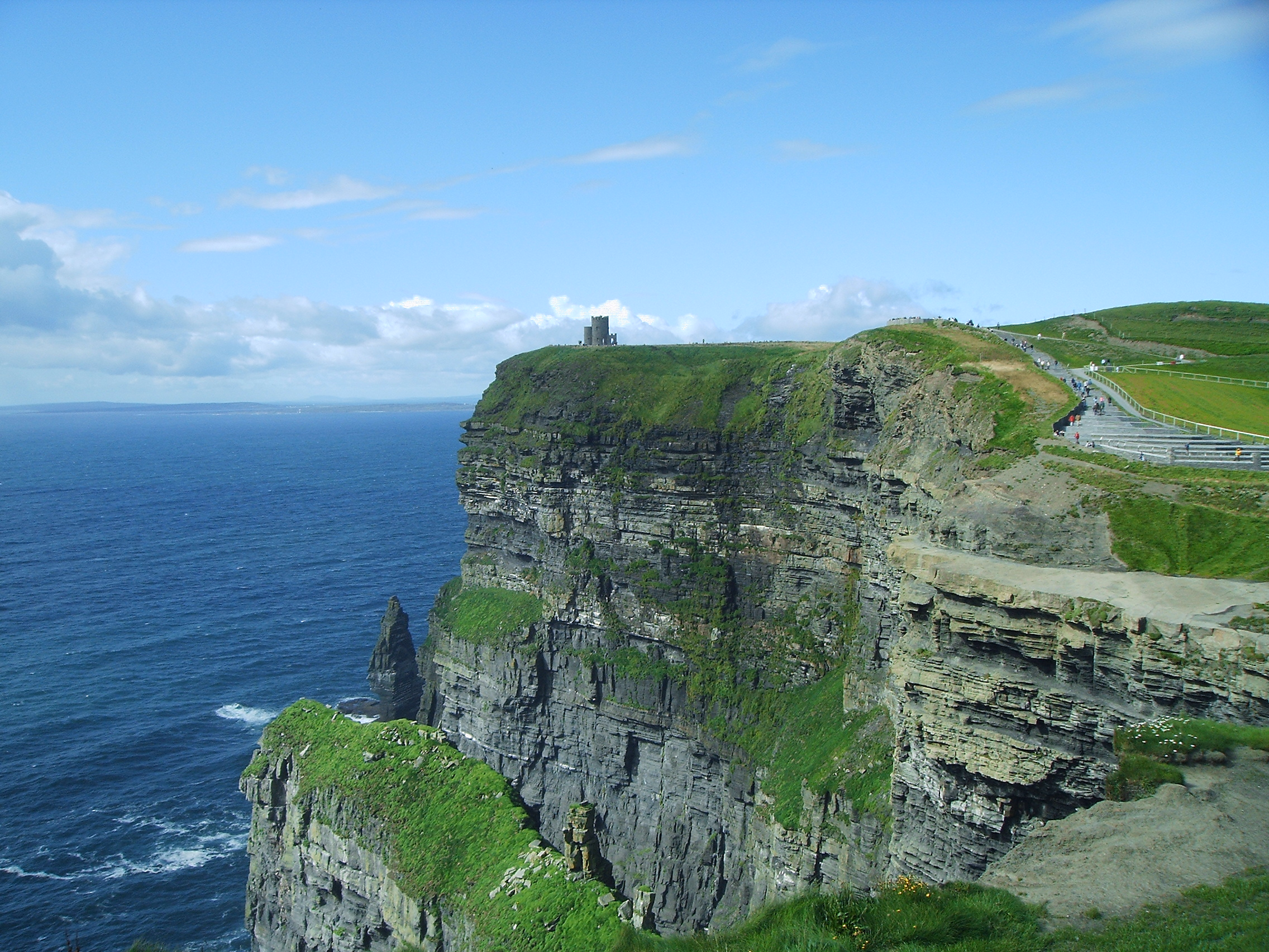 Cliffs of Moher, county Clare, Ireland